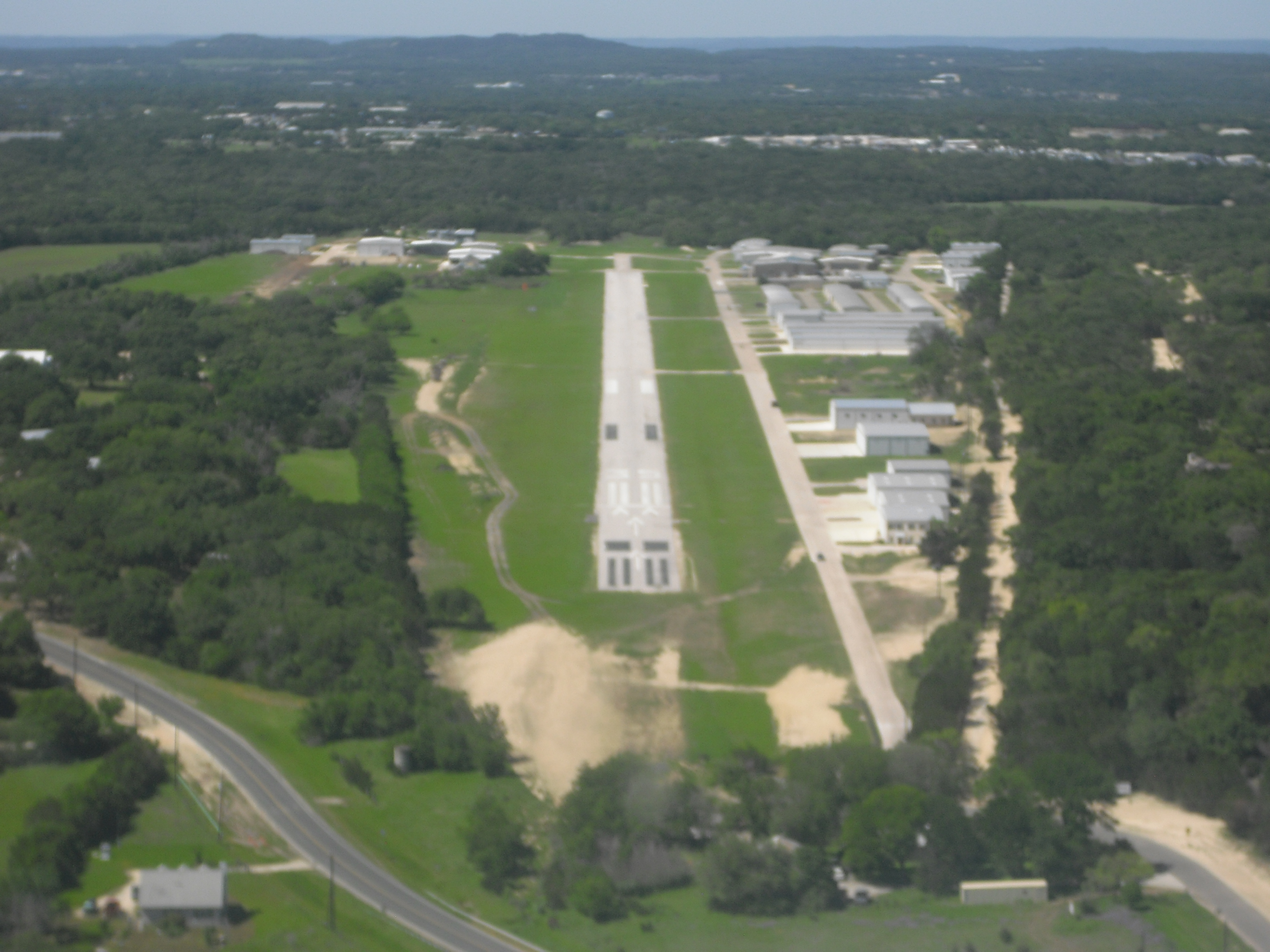 Borne Stage airport on final